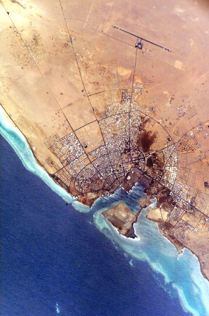 NASA photo of Yanbu' al Bahr. Retrieved from [1], which indicates its original source is "Earth Sciences and Image Analysis, NASA-Johnson Space Center"